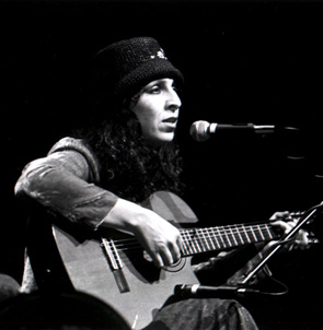 Lilit Pipoyan Singer, was born in 19